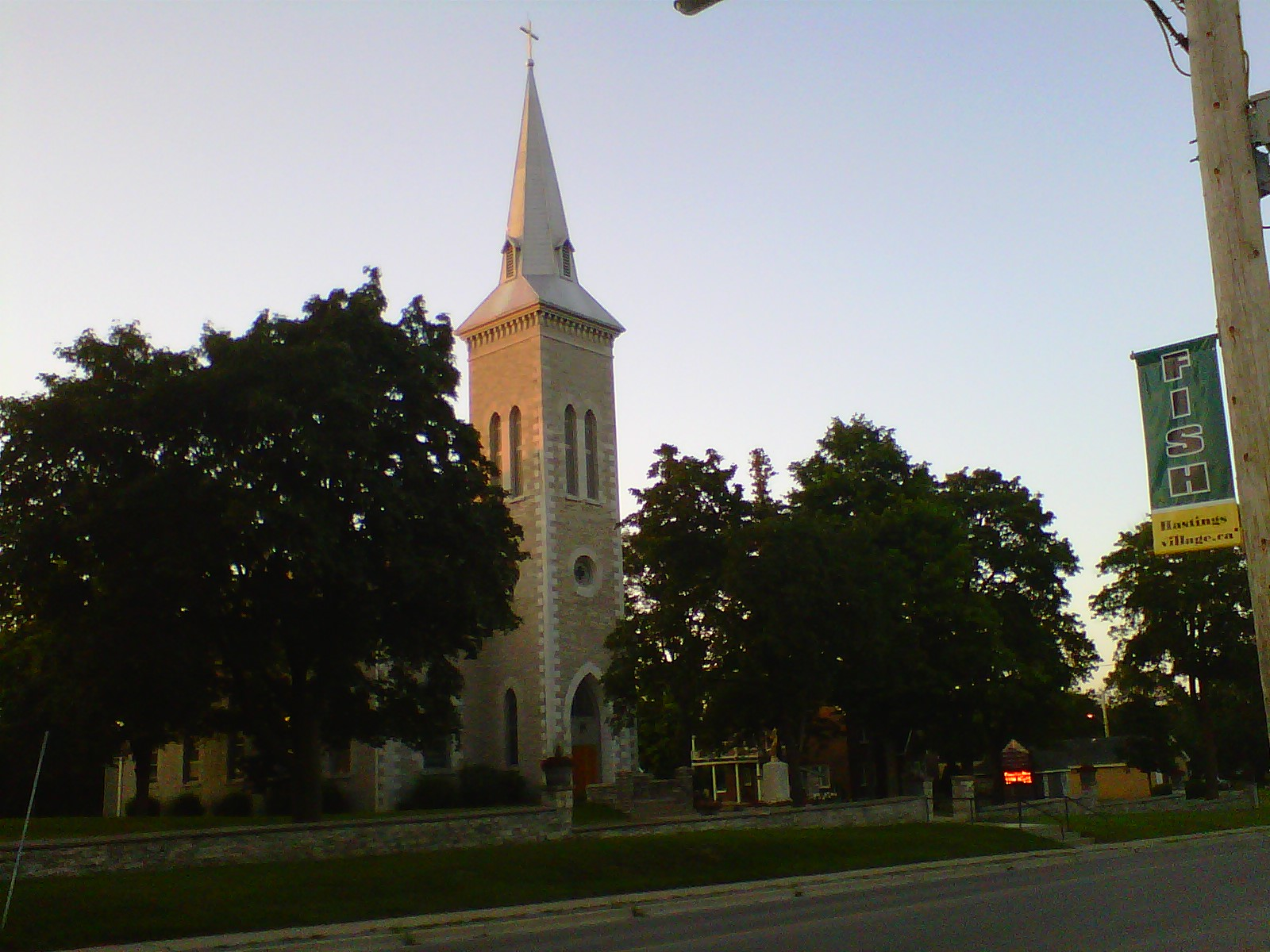 Hastings' Catholic Church as seen from across Albert St. East.